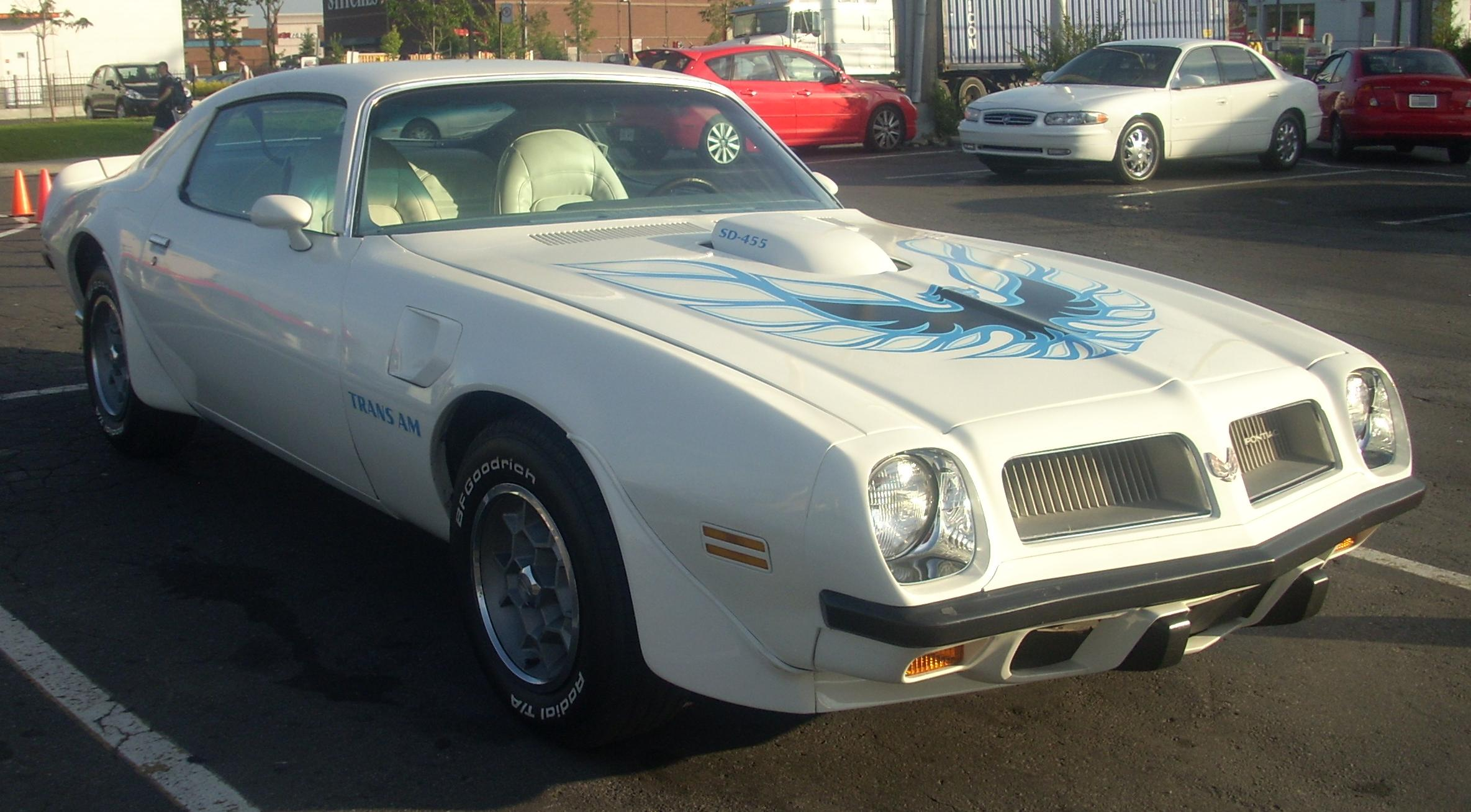 Pontiac Trans Am photographed in Montreal, Quebec, Canada at Gibeau Orange Julep.